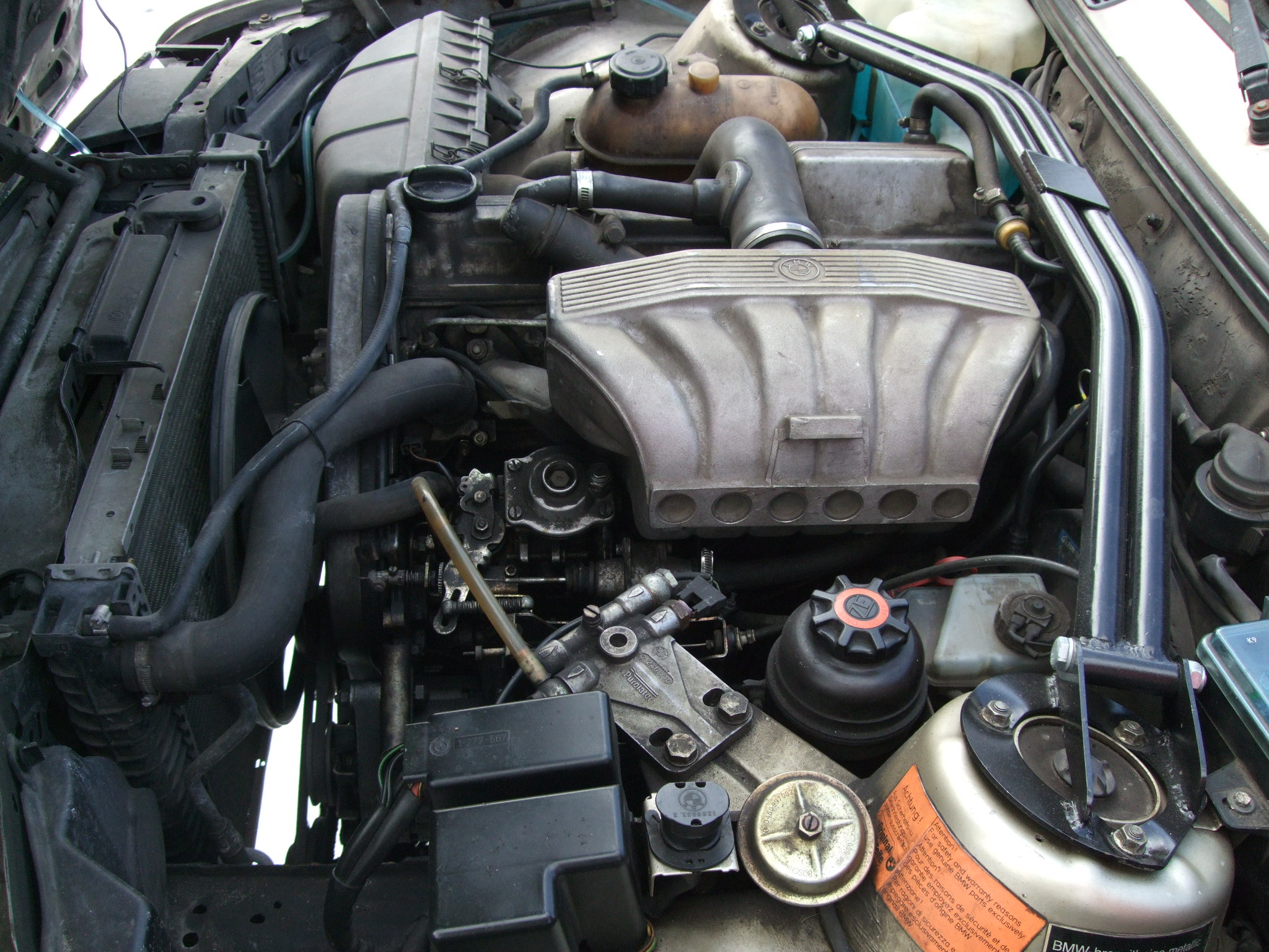 BMW e30 324d, e28 524d, 2443cm3, 63KW @ 4600RPM,152Nm @ 2500RPM.